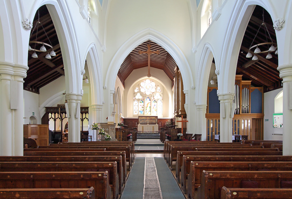 St John the Evangelist, Boxmoor, Hemel Hempstead - East end